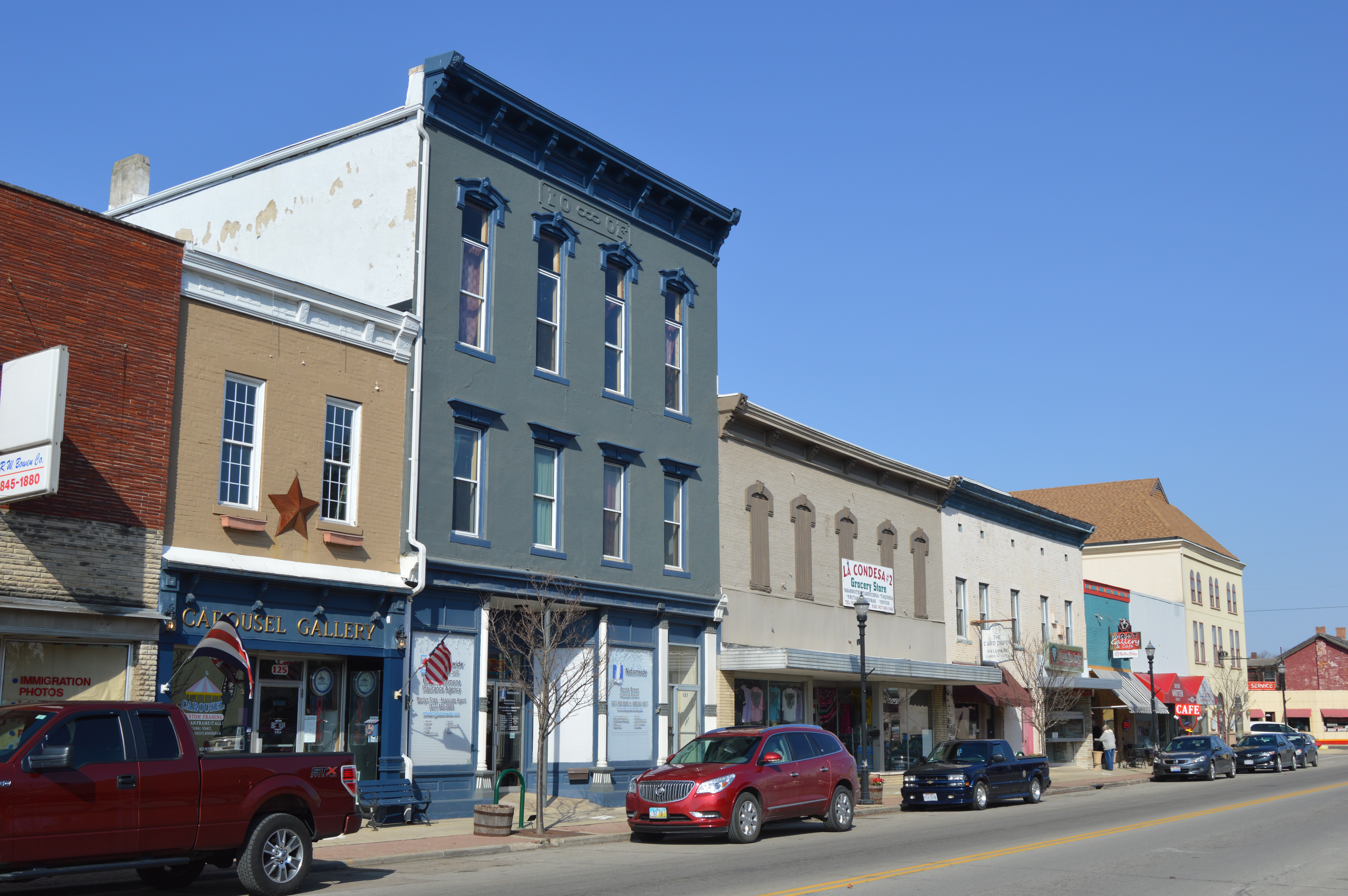 Buildings on the western side of the 100 block of S. Main Street (State Route 235) in New Carlisle, Ohio, United States.